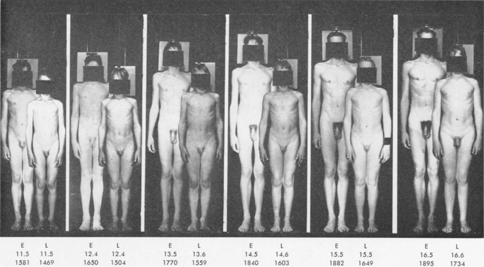 Comparison of the puberty of two boys, among which one with delayed puberty